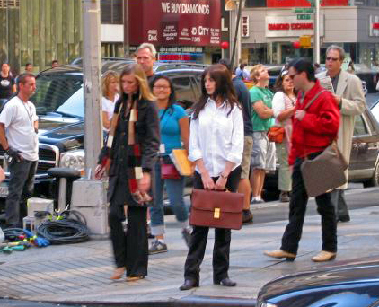 Anne Hathaway during production of The Devil Wears Prada